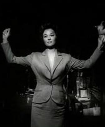 Cropped screenshot of Susan Hayward from the trailer for the film I Want to Live!